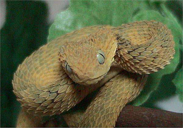 Photographer: Dawson Atheris squamigera